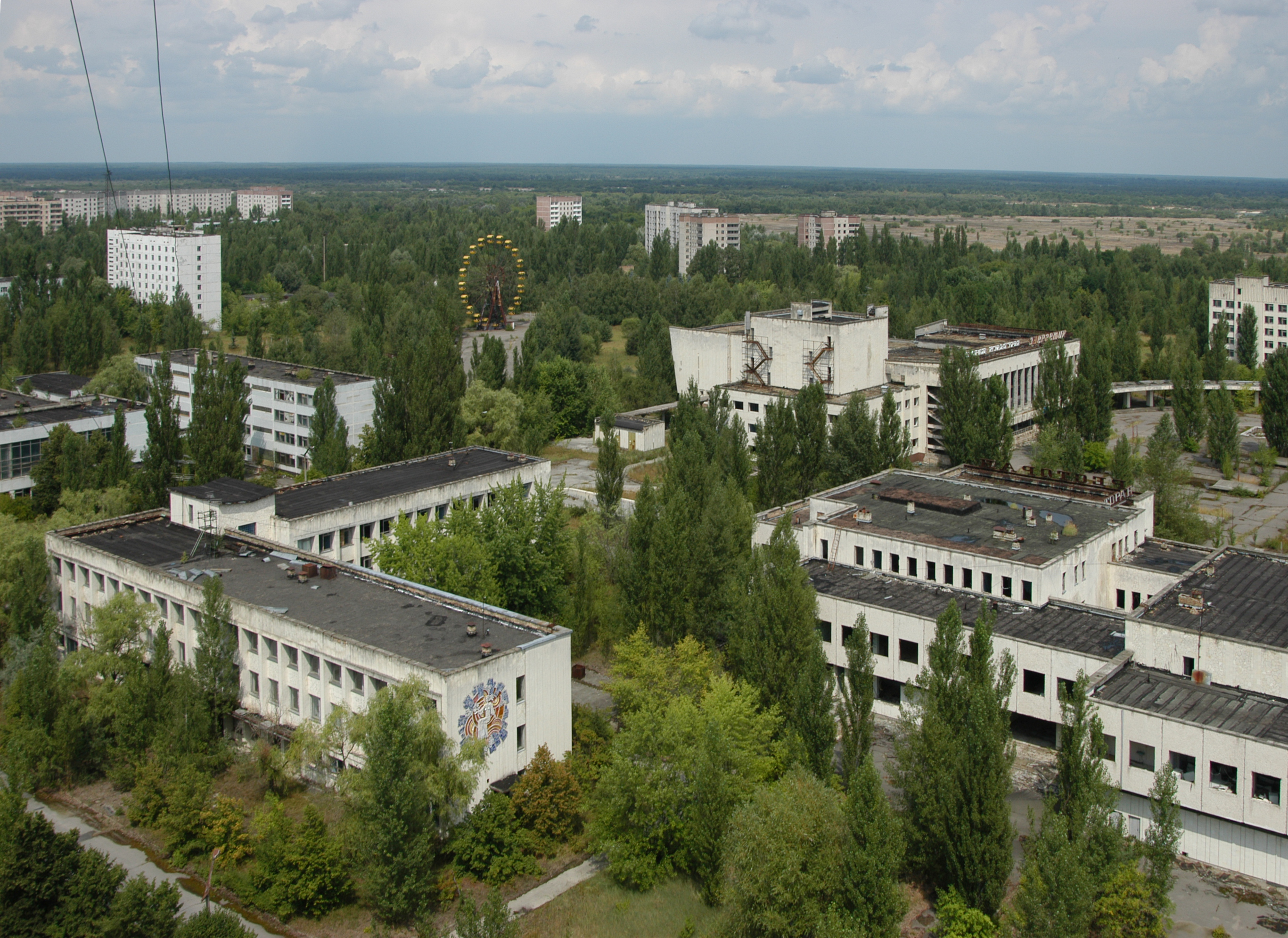 The city of Pripyat, three kilometres from the ill-fated Chernobyl Nuclear Power Plant, was once home to 45,000 people. The town was completely evacuated the day after the accident. The Ferris wheel in the background is frozen in time -- part of a small amusement park scheduled to open May 1, 1986. (Pripyat, Ukraine, August 2005) Photo Credit: Petr Pavlicek/IAEA